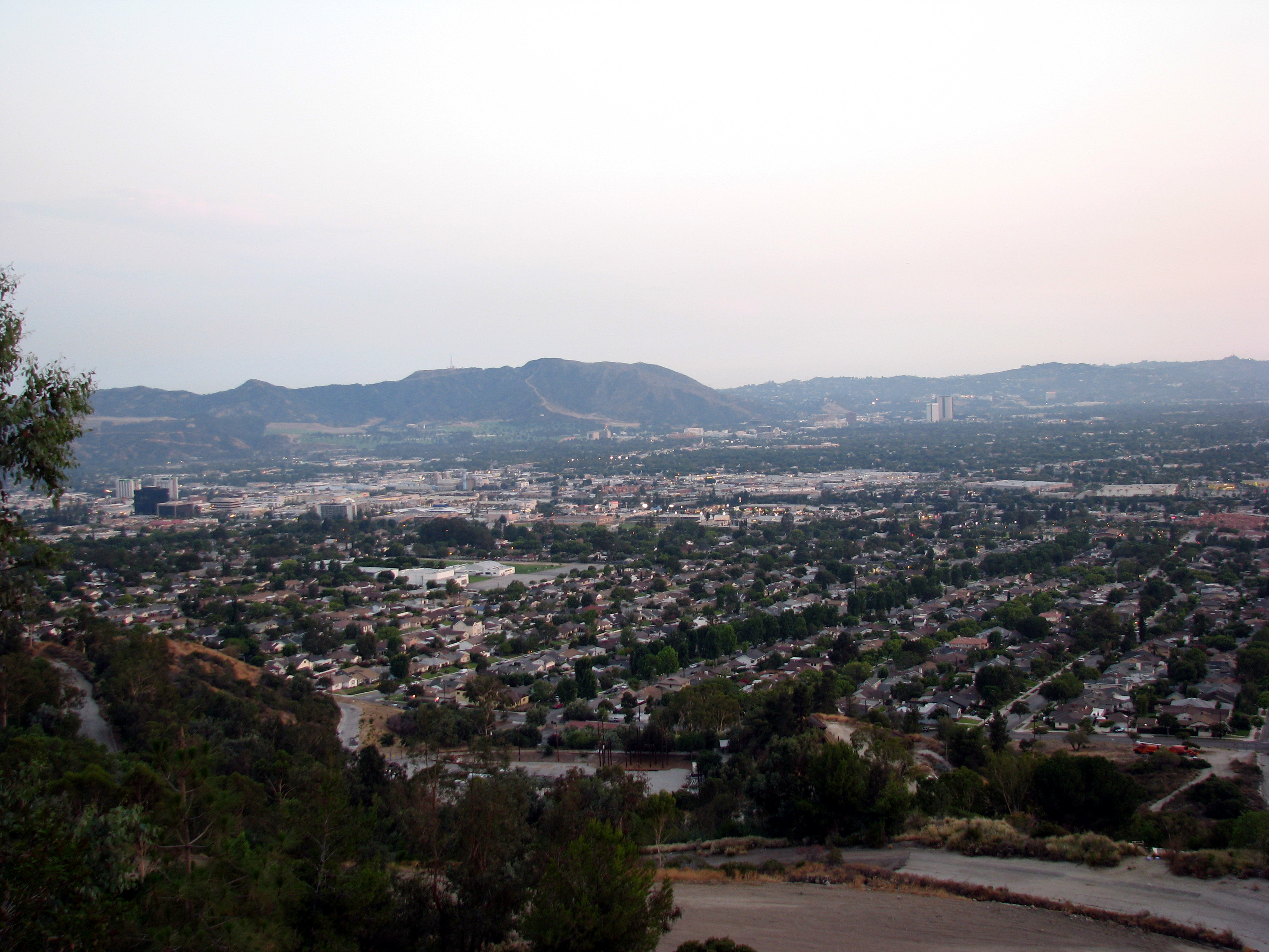 Elevated view of Burbank, California, located in the San Fernando Valley approximately 10 miles north of Downtown Los Angeles. Taken from the Verdugo Hills.